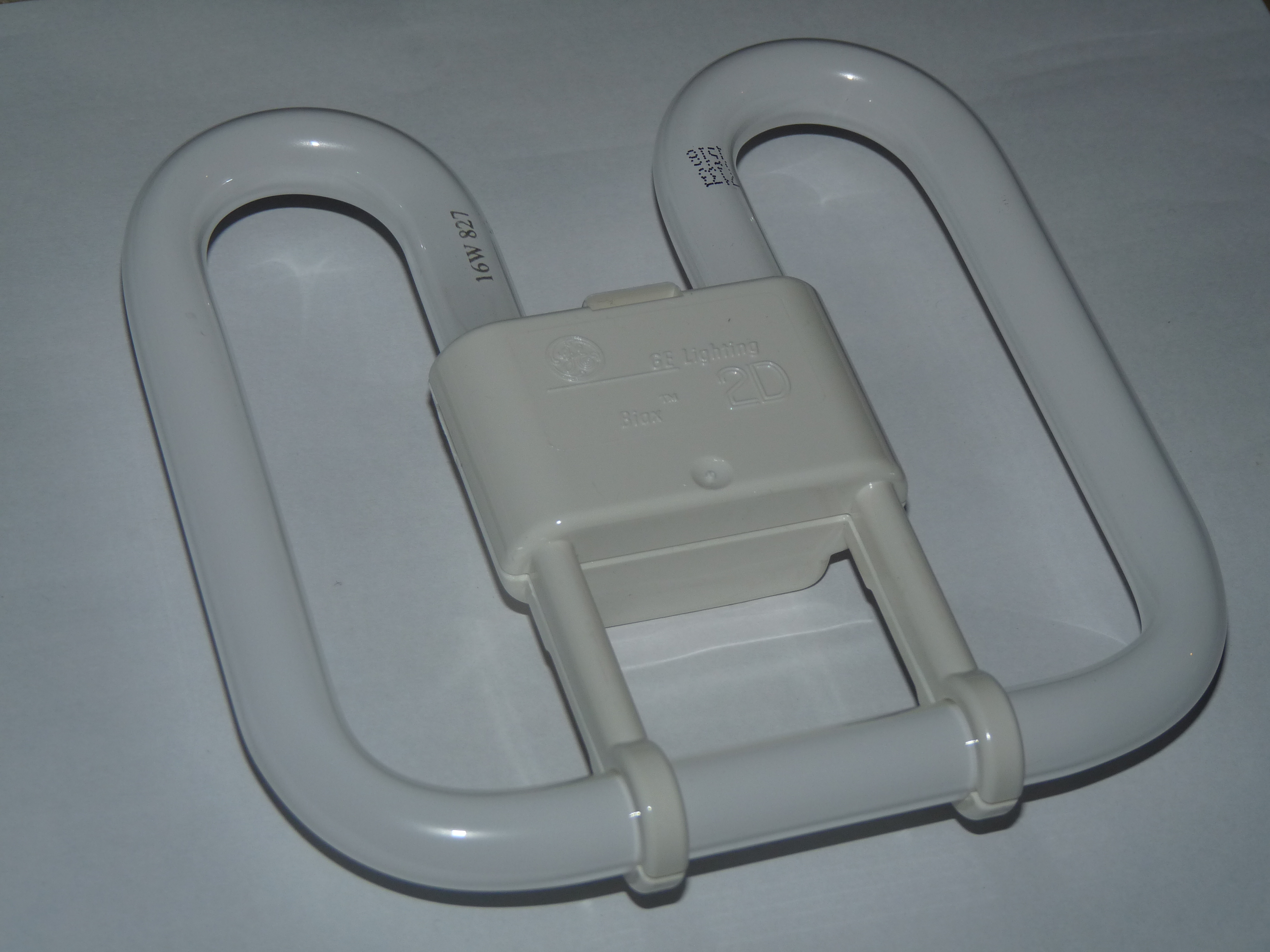 GE biax 2D compact fluorescent light bulb